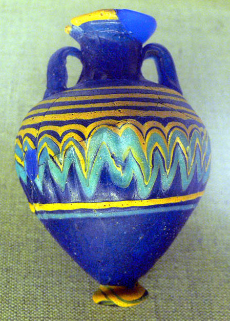 Punic flask found in the phoenician necropolis of Puig des Molins. Museum of Puig des Molins in Ibiza (Spain).